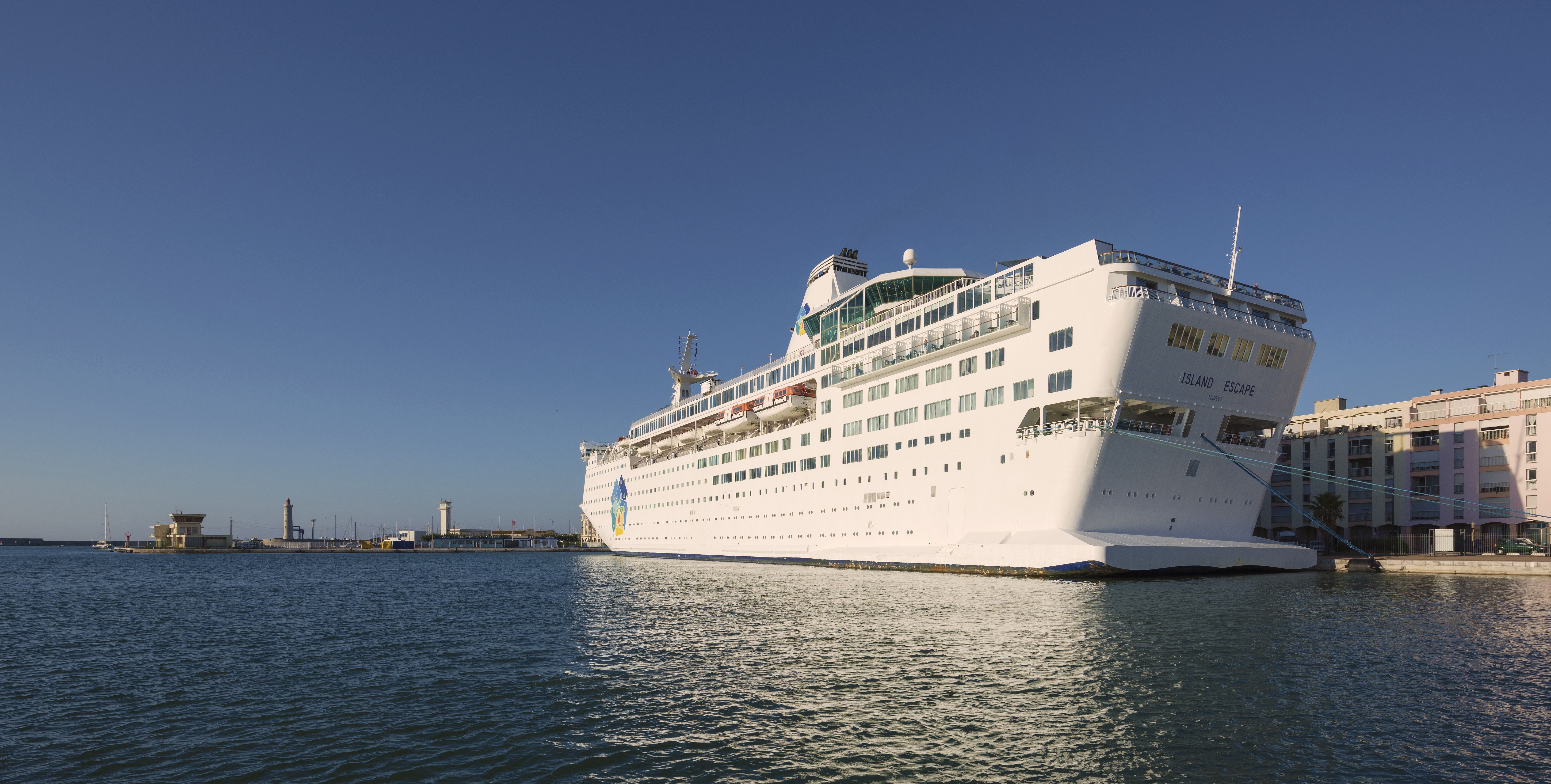 Island Escape (ship, 1982), moored at the Algiers Embankment. Sète, Hérault, France.